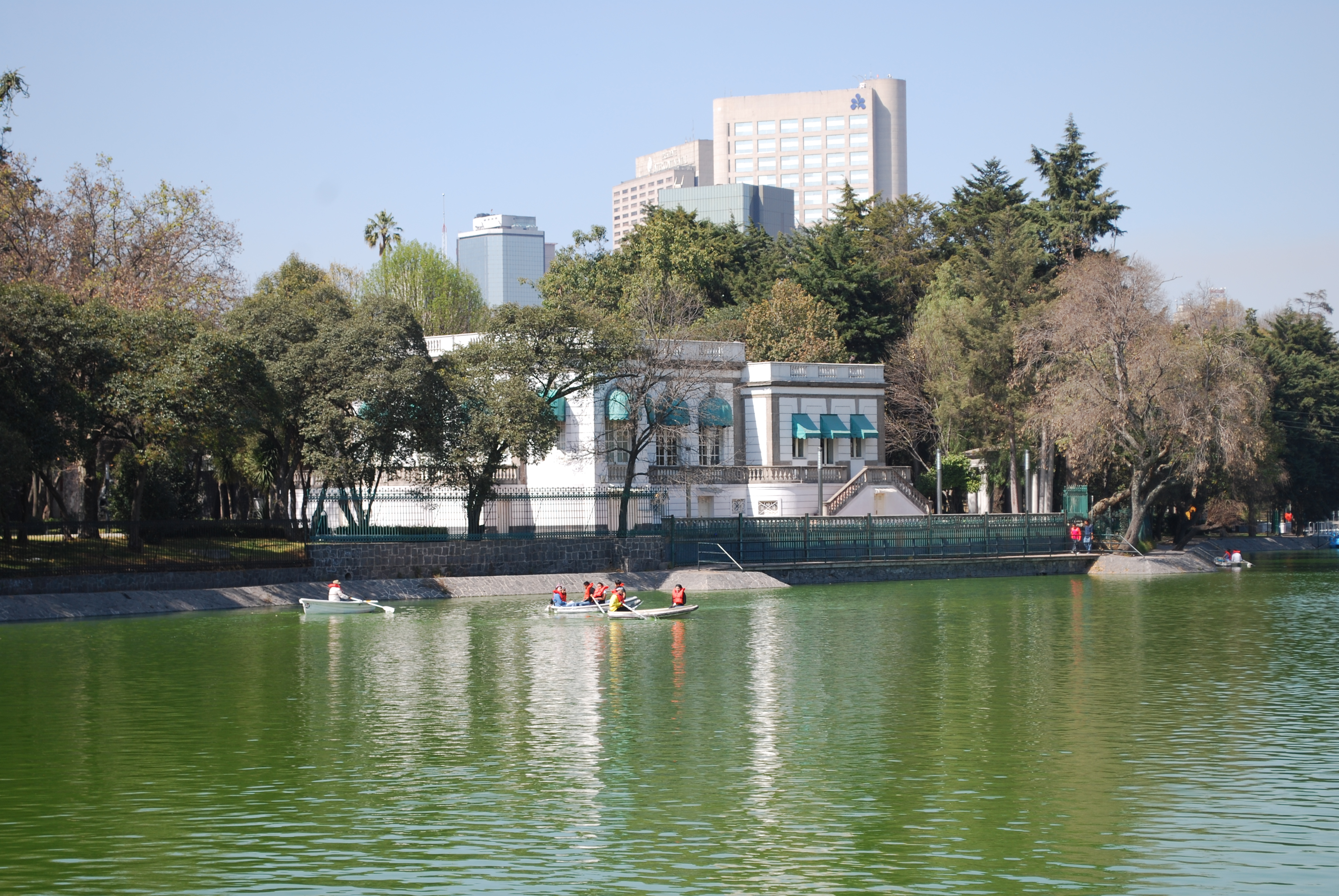 Casa del Lago at Chapultepec Park, Mexico City